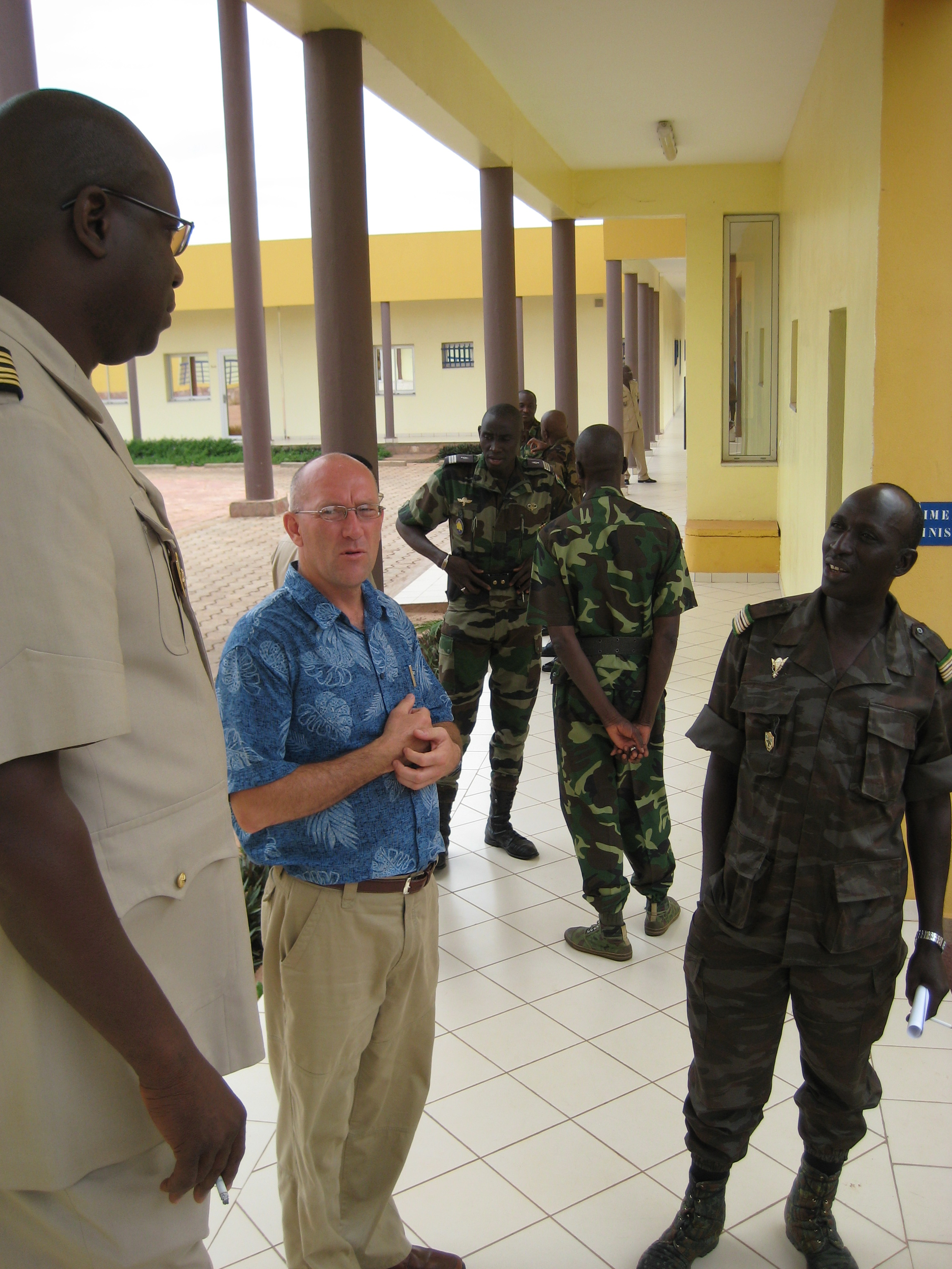 Participants and course facilitator of a Disarmament, Demobilisation and Reintegration course chatting during a break. The course was designed and delivered by Yvan Pichette and Denis Vermeirre of the Pearson Peacekeeping Centre at the Ecole de Maintien de la Paix in Bamako, Mali, in 2007.